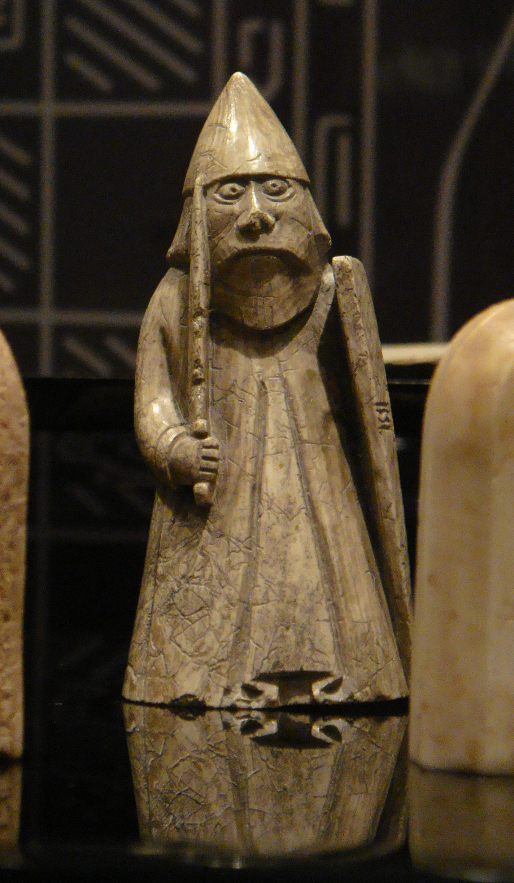 Exhibition in the National Museum of Scotland. Pieces from the British Museum, National Museum of Scotland and other collections. A warder (rook) with number of permanent collection NMS 28